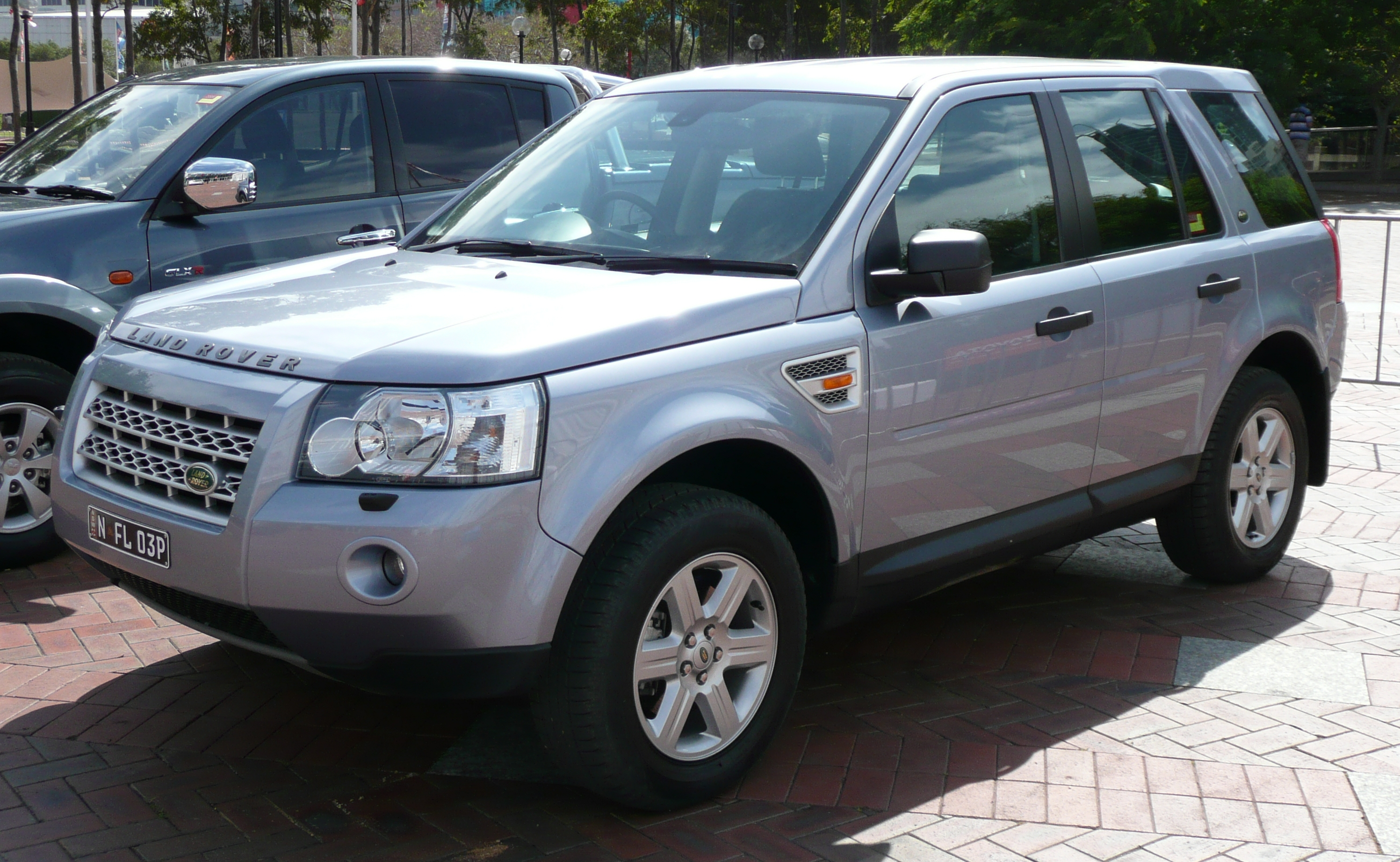 2007 Land Rover Freelander 2 (LF) SE i6 wagon. Photographed in Sydney, New South Wales, Australia.